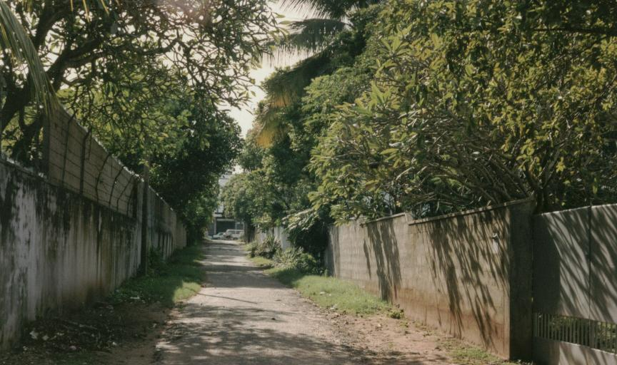 Maha Nuge Gardens, off Galle Road, in Colombo, Sri Lanka